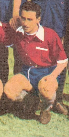 Former Independiente footballer Osvaldo Héctor Cruz